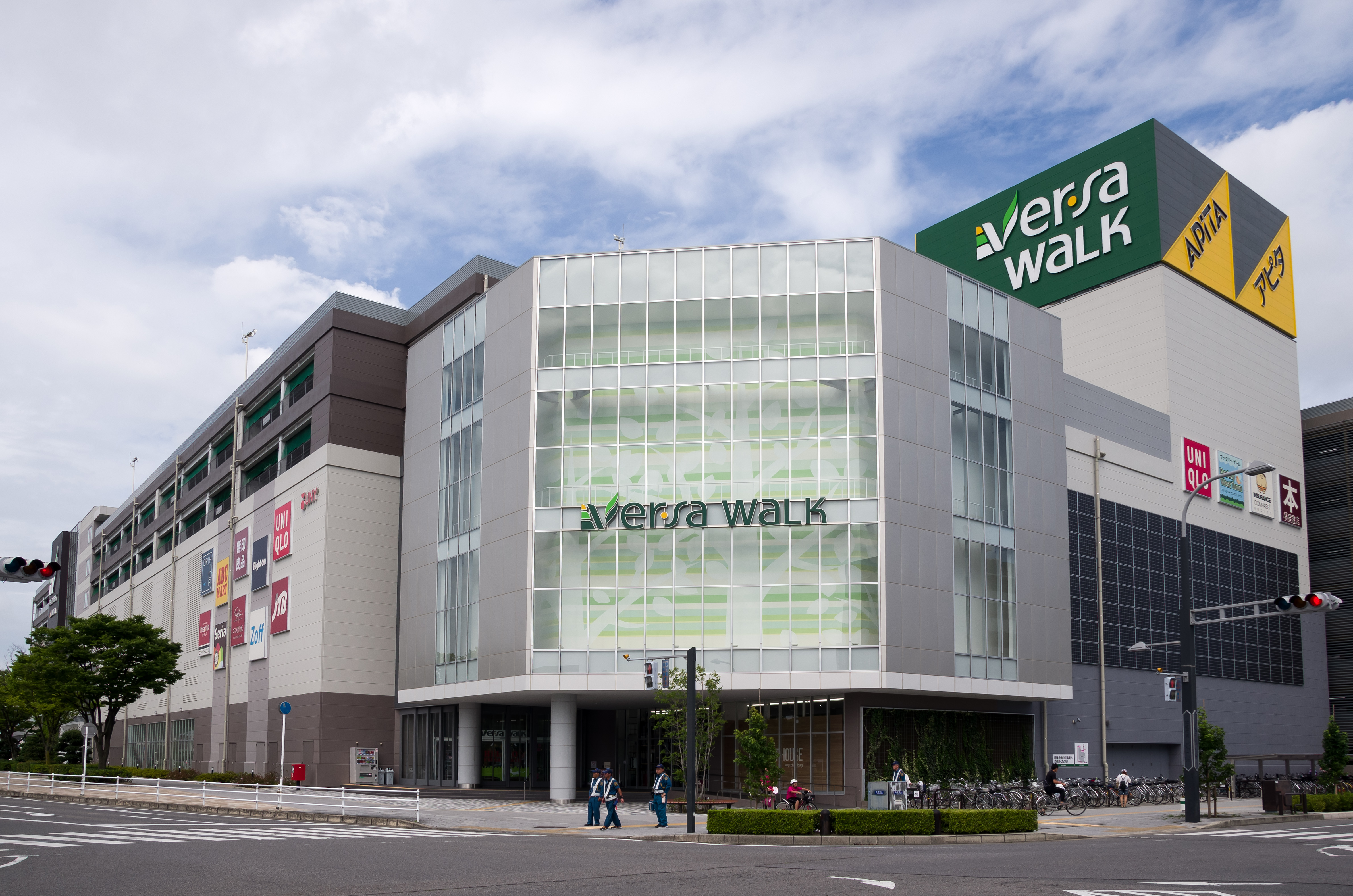 "Versa Walk Nishio" (Shopping mall) in Nishio, Aichi, Japan.